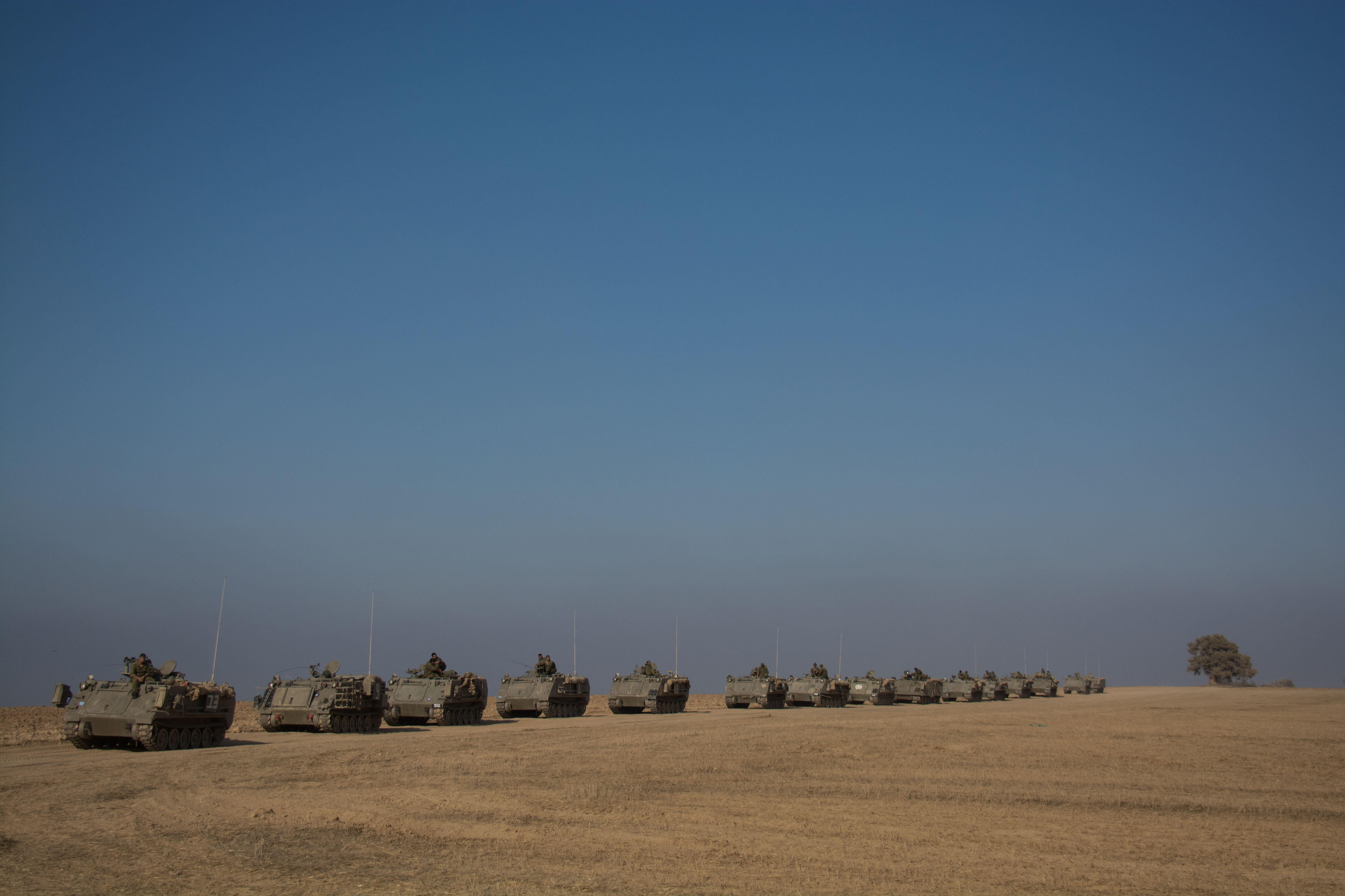 Armored Personnel Carriers on their way to the Gaza border For more updates: The Israel Defense Forces Facebook The Israel Defense Forces blog Follow us on Twitter